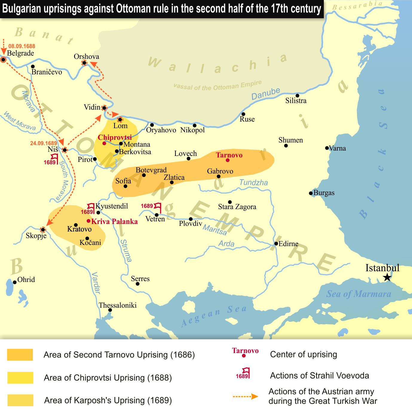 Bulgarian uprisings against Ottoman rule in the second half of the 17th century.